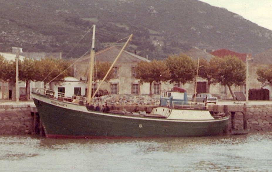 "Rosita Rey" was a typical merchant ship of 9,929 GT (Gros Ton.) that had its base at the port of Corme in the northwest of Spain. The ship sank in Andalucía (southern Spain) due to a storm in 1990. The name of the ship is the name of the daughter of the owner Jesús Rey Suárez